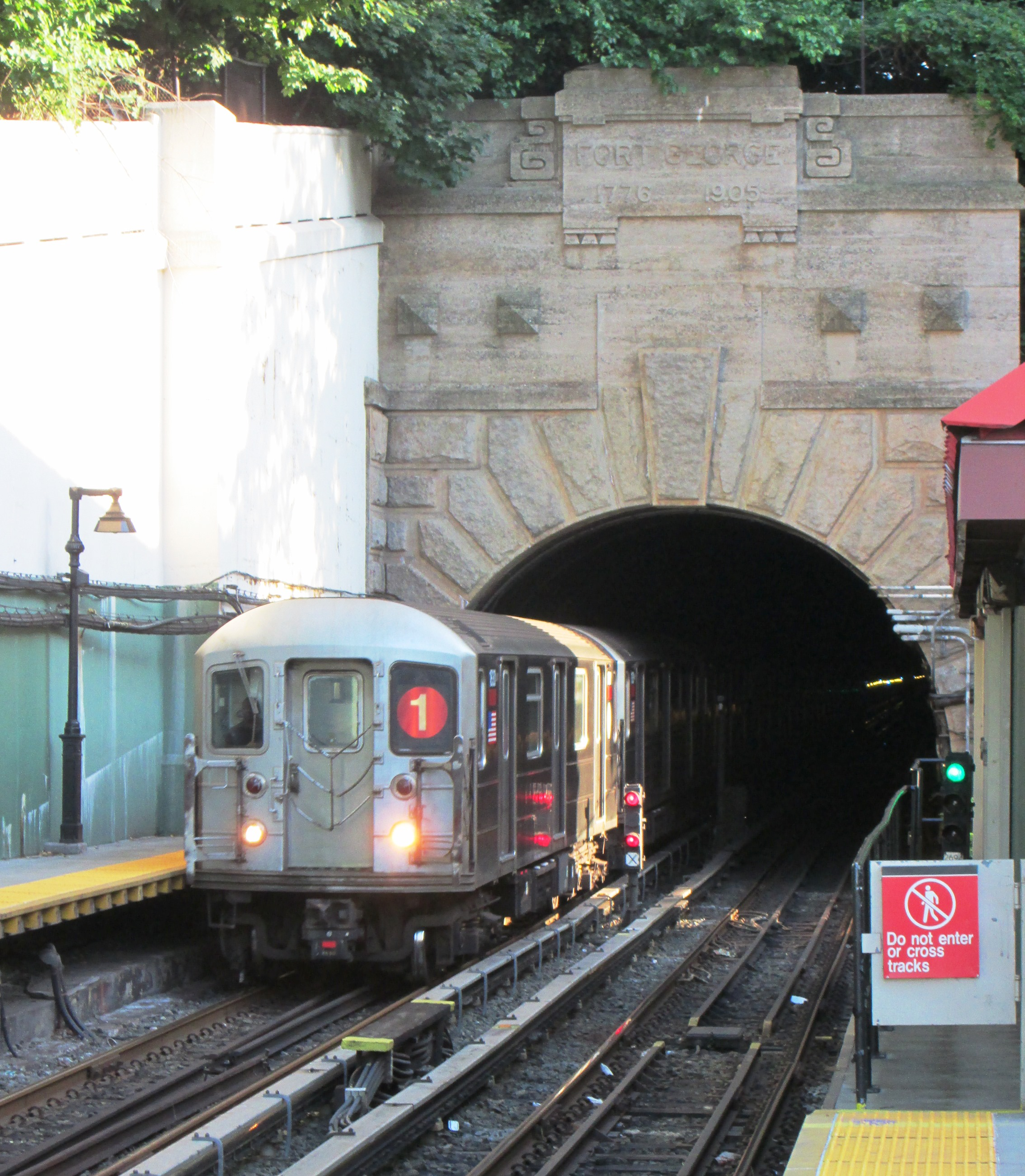 An uptown #1 train on the IRT Broadway – Seventh Avenue line emerges from the Fort George tunnel into the Dyckman Street station.